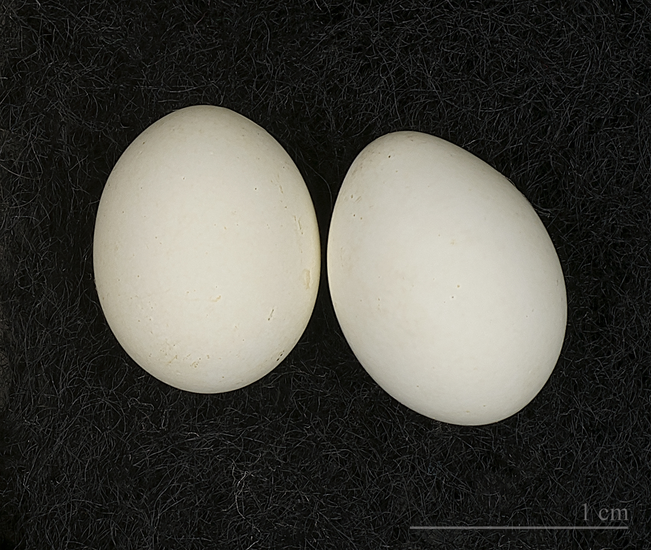 Egg of Common Waxbill. Collection of René de Naurois / Jacques Perrin de Brichambaut.